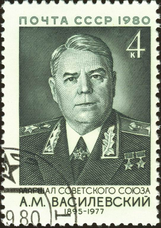 A USSR stamp, Military persons of the USSR